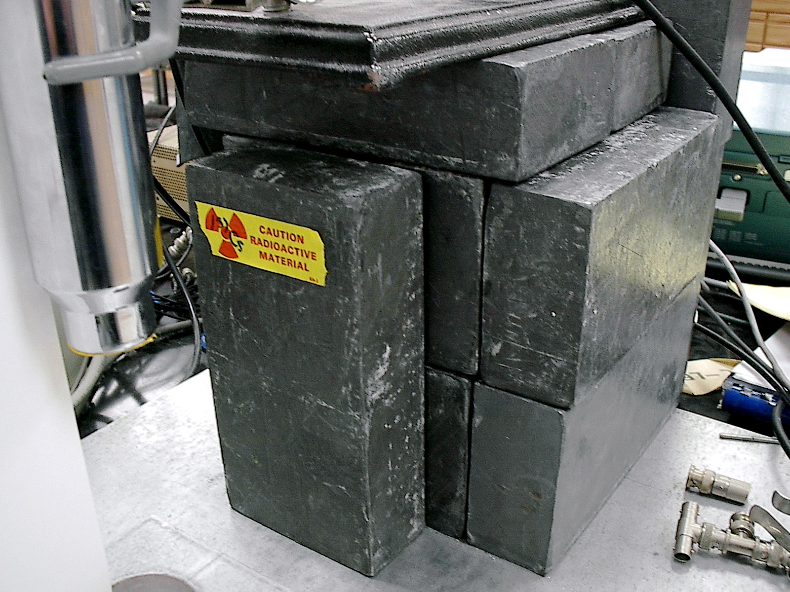 Lead bricks being used to shield a radioactive sample (Cs-137). Taken by L. Chang, 3-17-2004.